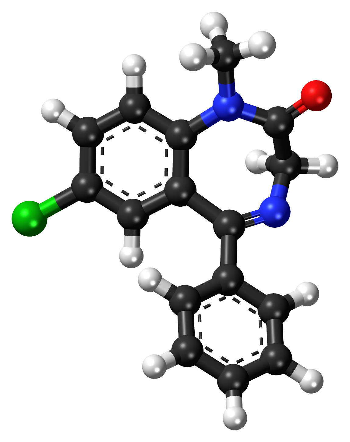 Ball-and-stick model of diazepam (original brand name Valium) — a widely used anxiolytic medication. Created using Accelrys DS Visualizer 4.1 and Adobe Photoshop CC 2015. Colors used: Carbon, C: dark grey Hydrogen, H: light grey Nitrogen, N: blue Oxygen, O: red Chlorine, Cl: green This chemical image was created with Discovery Studio Visualizer.